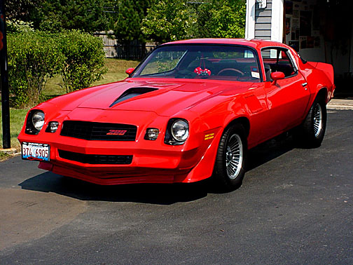 1979 Z-28 Camaro from a friend of mine, Bill Calouskie